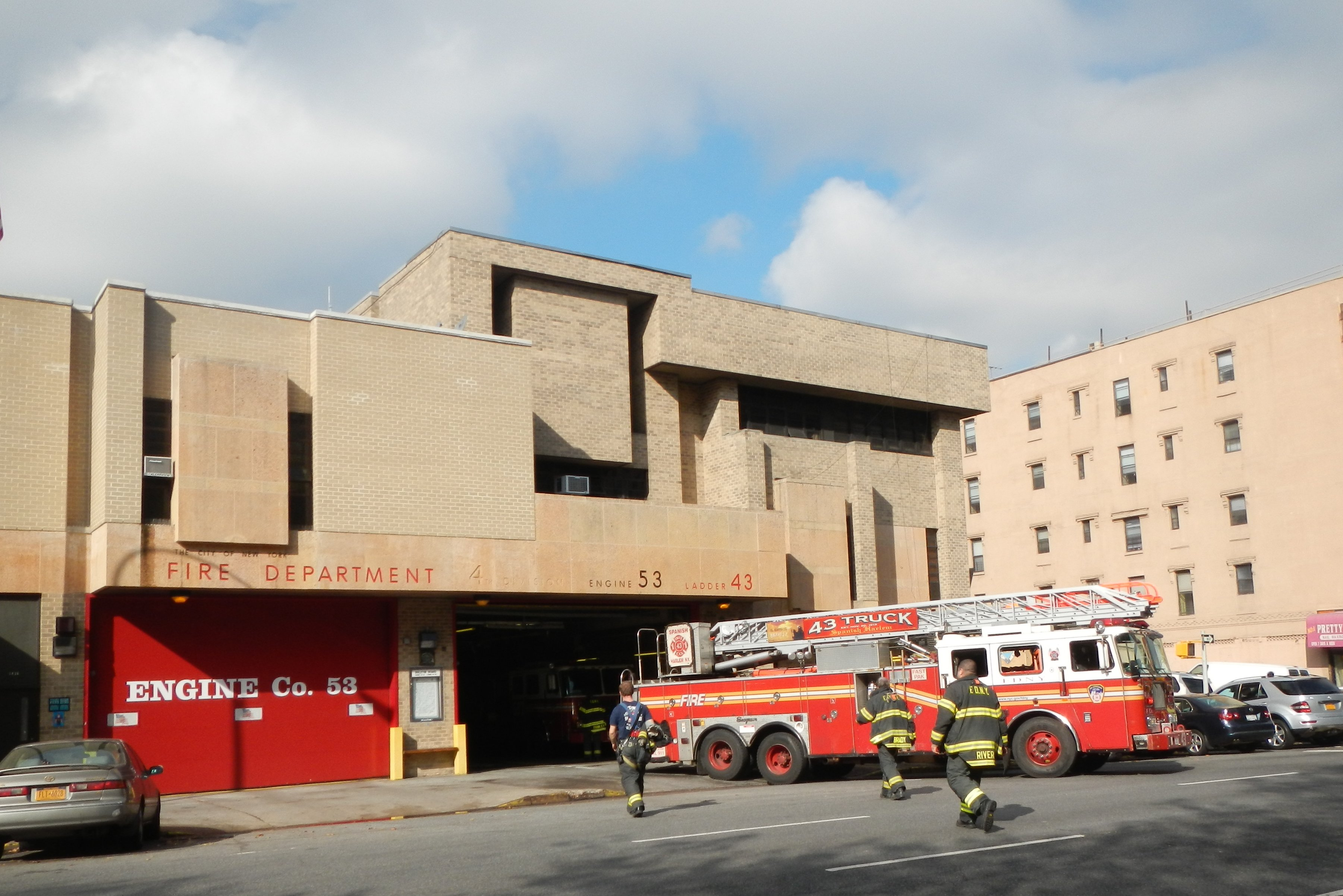 Looking northwest across 3d at ladder truck returning to firehouse on a mostly sunny midday.